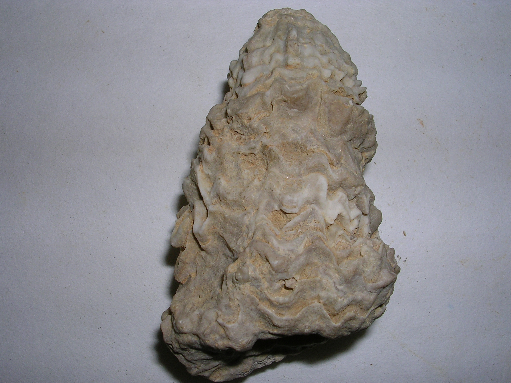 Radiolites sp. fossil (Late Cretaceous) founded in Burgos, in a laboratory of practices of the Faculty of Sciences of the University of Corunna, Spain.